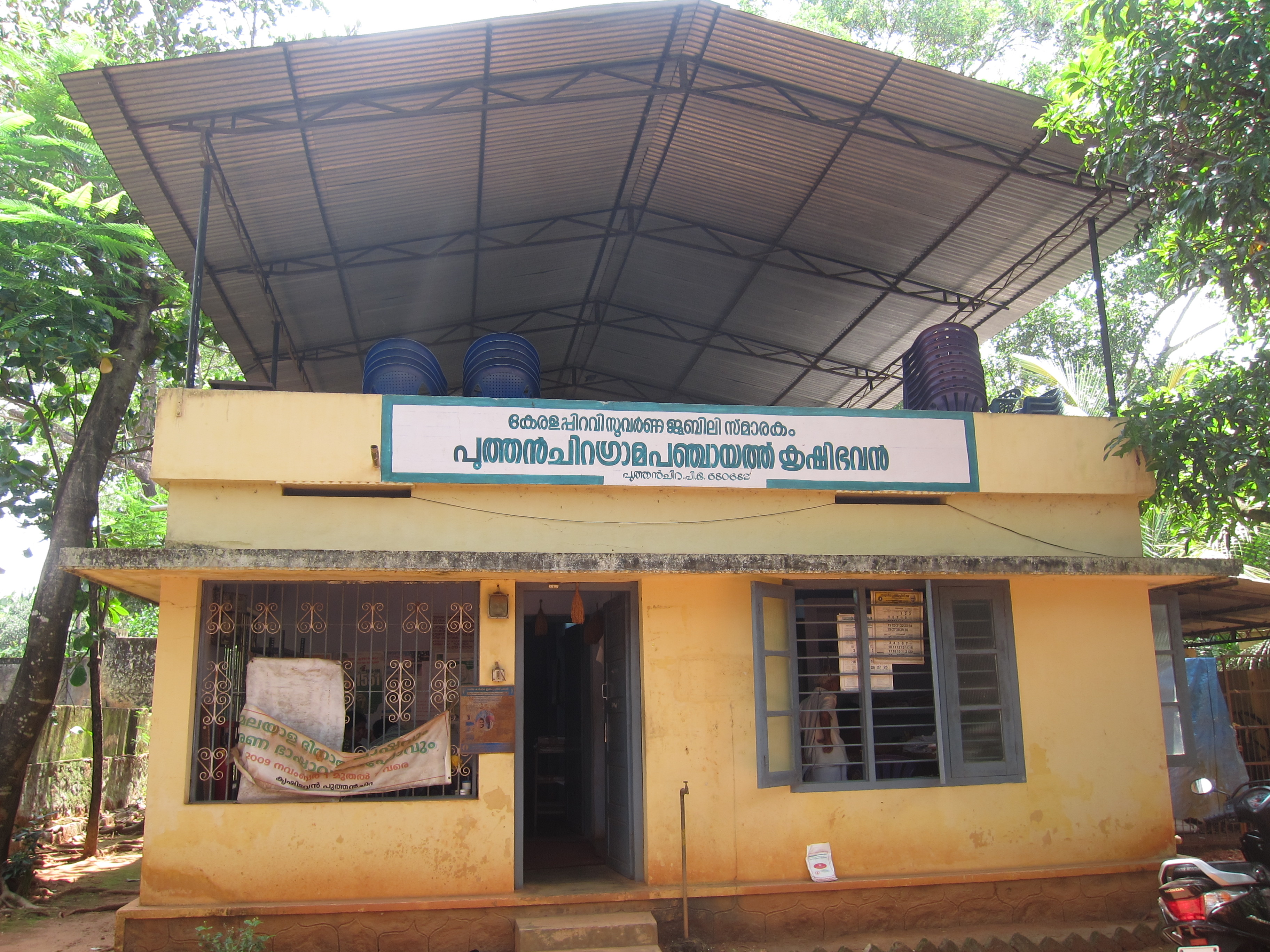 Puthenchira Agricultral Office, Thrissur പുത്തൻചിറ കൃഷിഭവൻ, തൃശ്ശൂർ